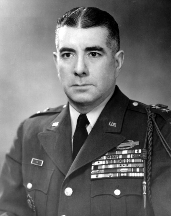 Lionel C. McGarr in 1960, shortly before his promotion to Lieutenant General and assignment as commander of Military Assistance Advisory Group -- Vietnam.